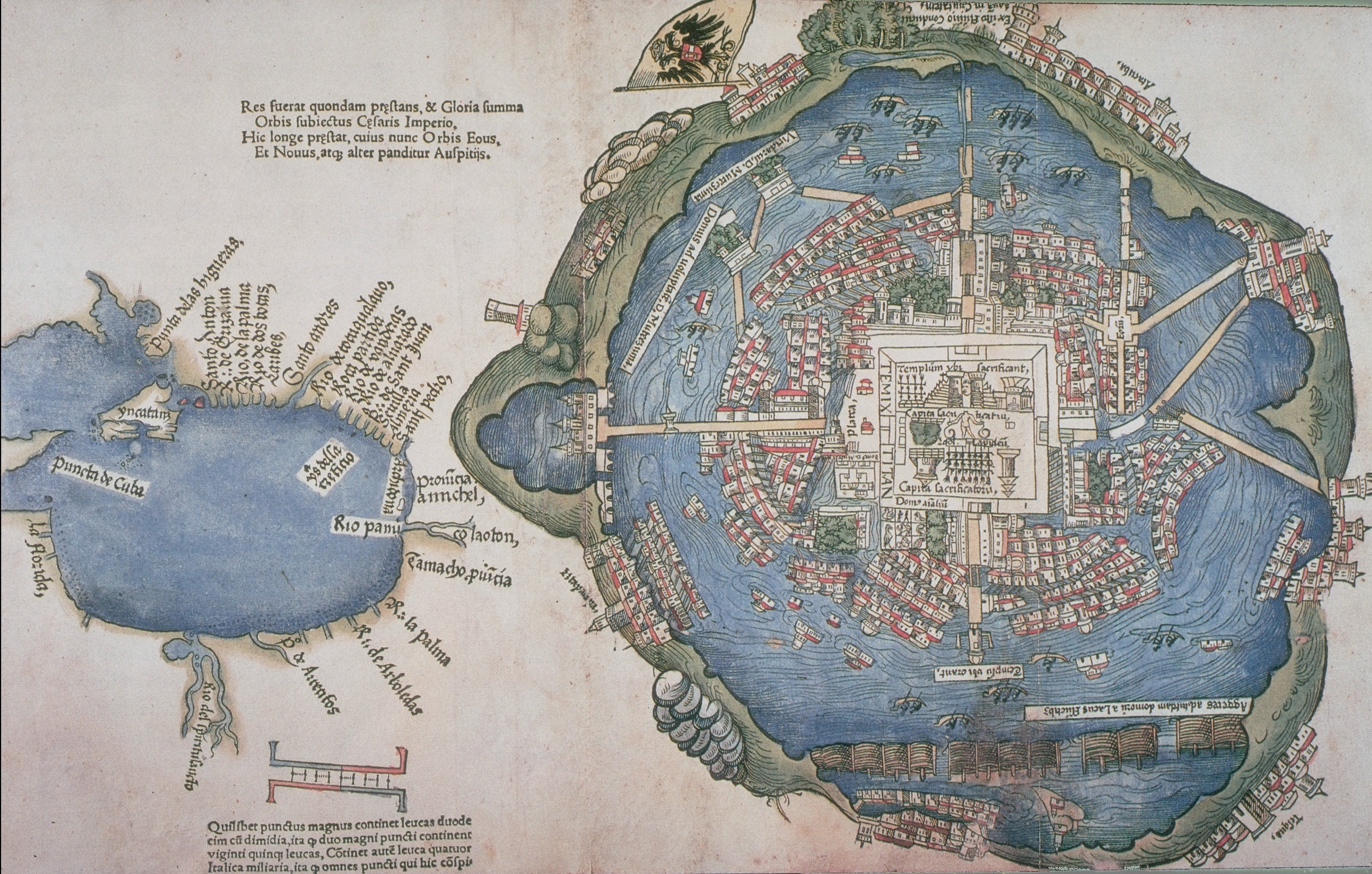 Map of Tenochtitlan, printed 1524 in Nuremberg, Germany. Colorized woodcut. On the left, the Gulf of Mexico (South is at the top, part of Cuba left); on the right, Tenochtitlan with West at the top.